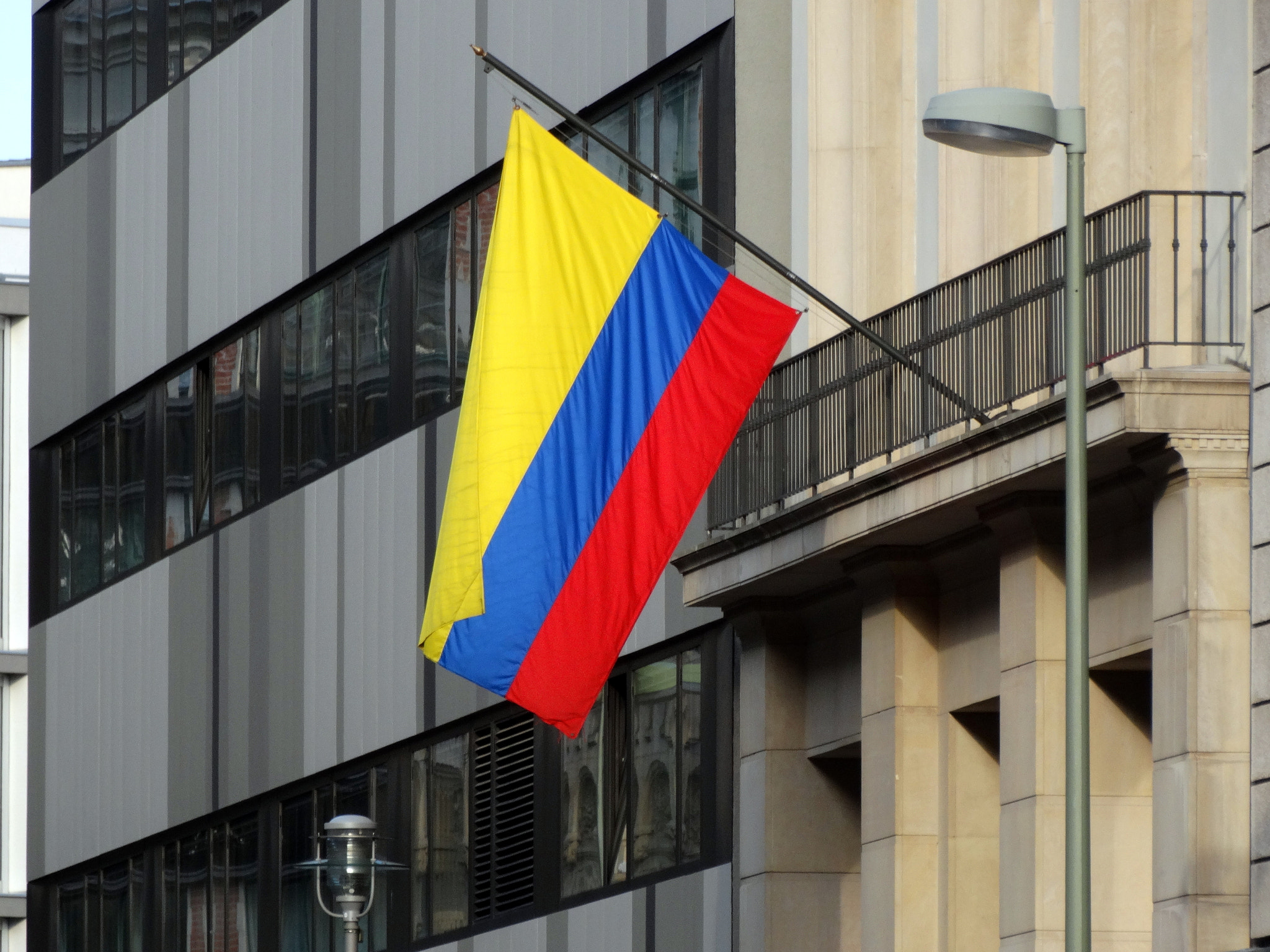 500px provided description: Flags In The Wild Colombia [#city ,#cityscape ,#germany ,#berlin ,#embassy ,#flagpost ,#Colombia ,#Colorful ,#flags in the wild ,#Colombian flag]